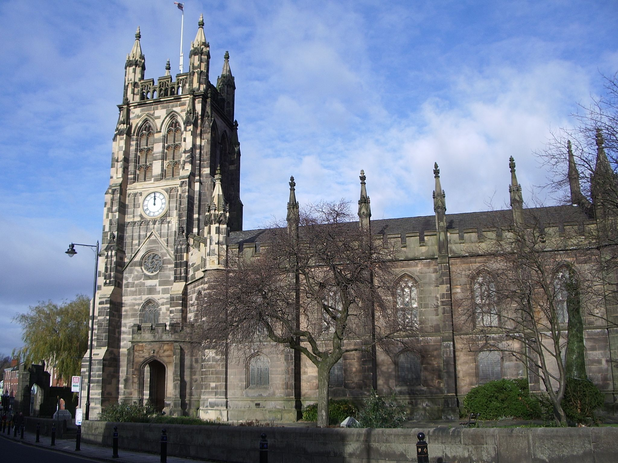 St Mary's parish church, Stockport, Greater Manchester, seen from the south